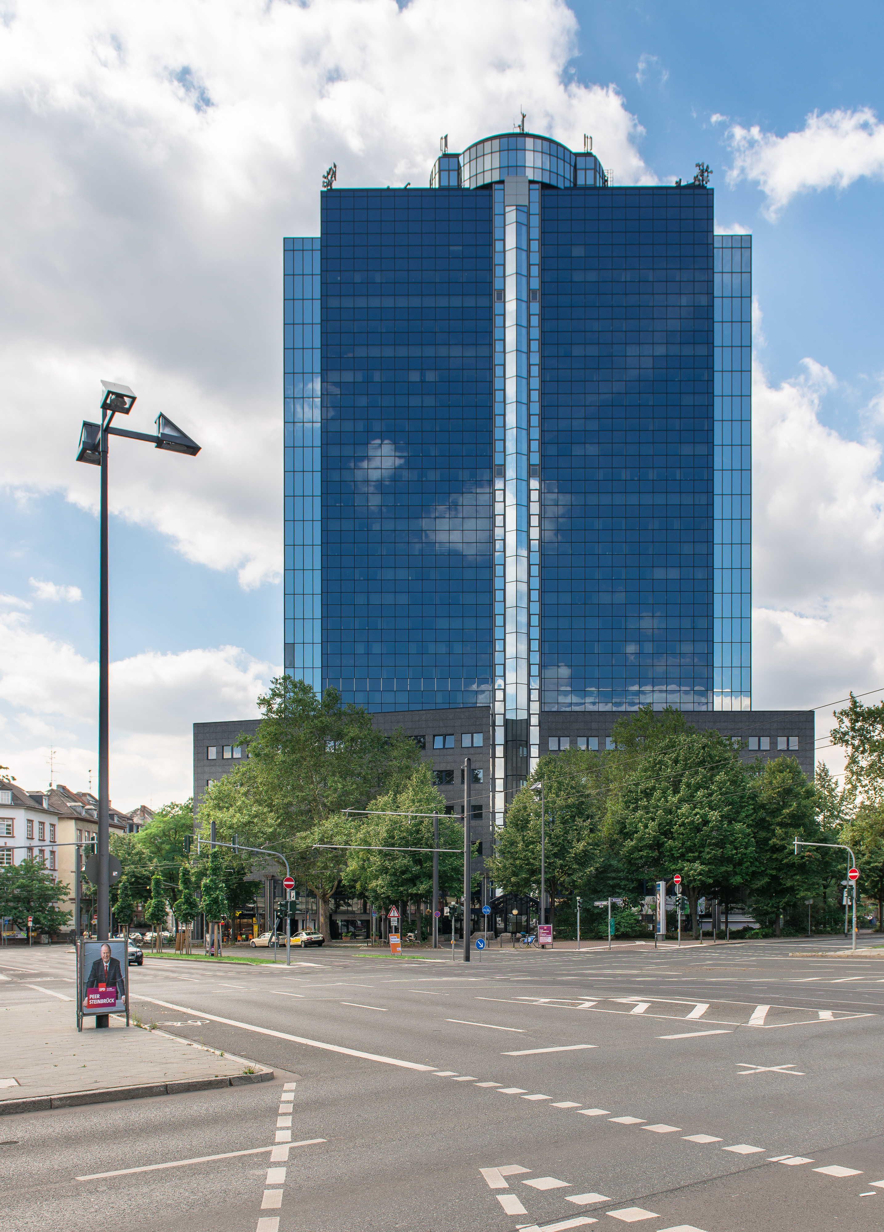 Frankfurt am Main, Büro Center Nibelungenplatz (former Shell Tower) tower as seen from North-East.